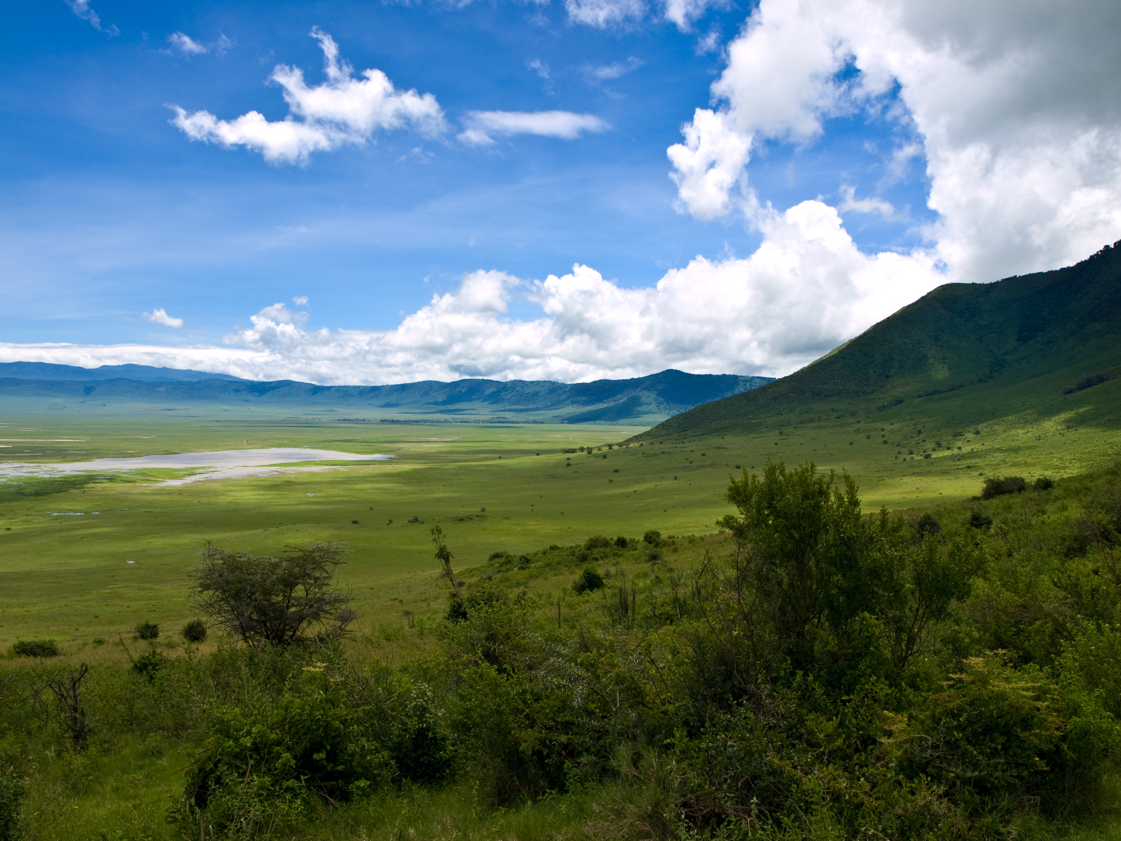 Landscape of the ridge at the edge of the Ngorongoro Crater, Tanzania.